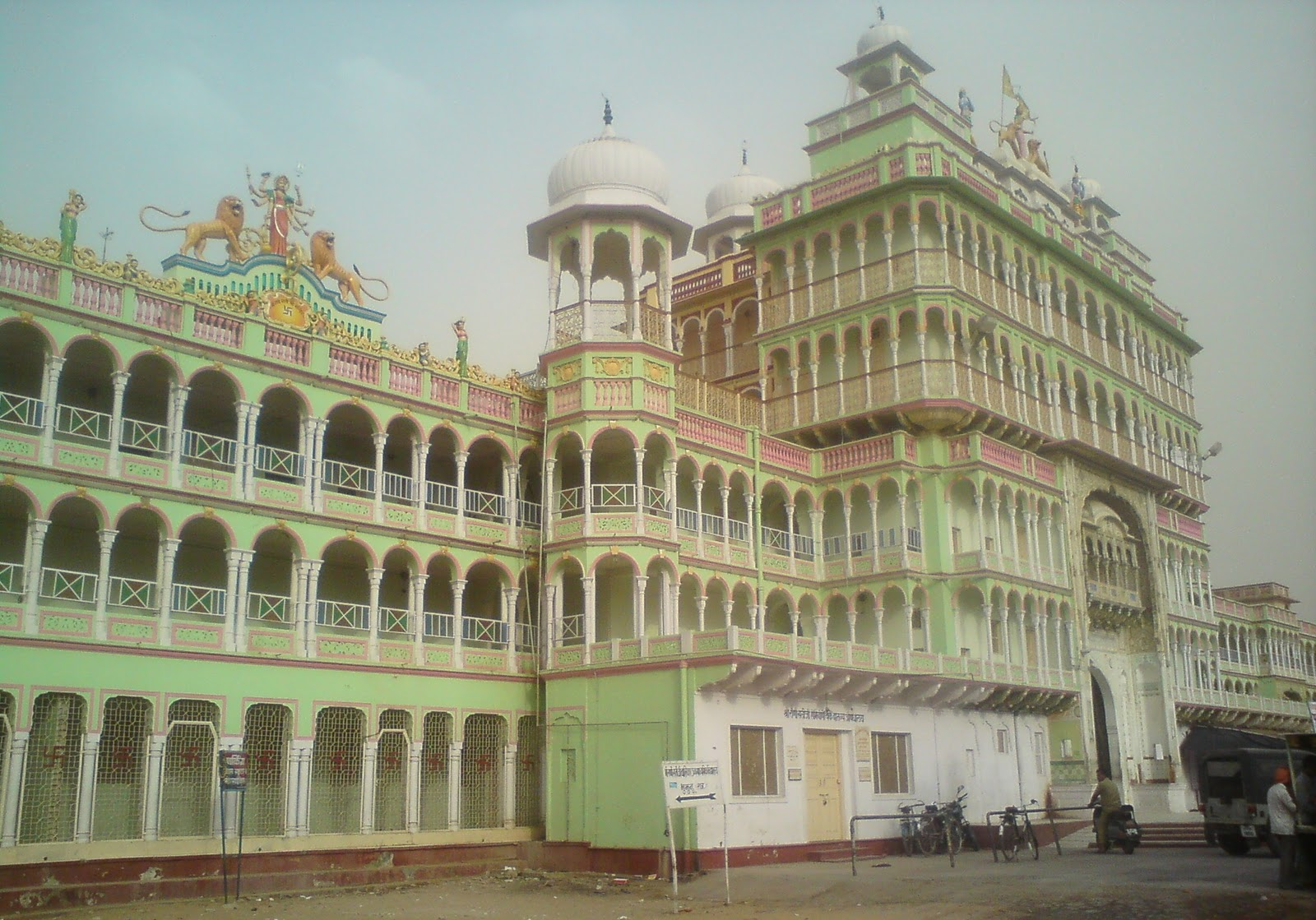 This is main entrance gate of Rani Sati Temple. This is a large and historical Gate.